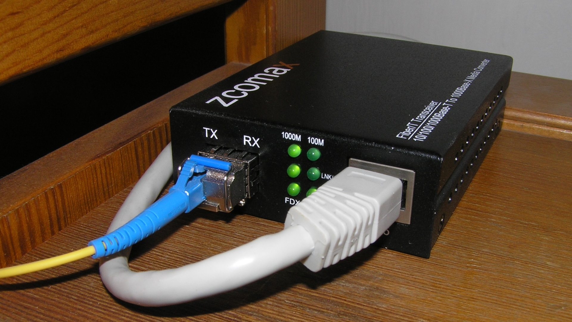 1Gb/s media converter Zcomax ZX-AK-C1002SFP